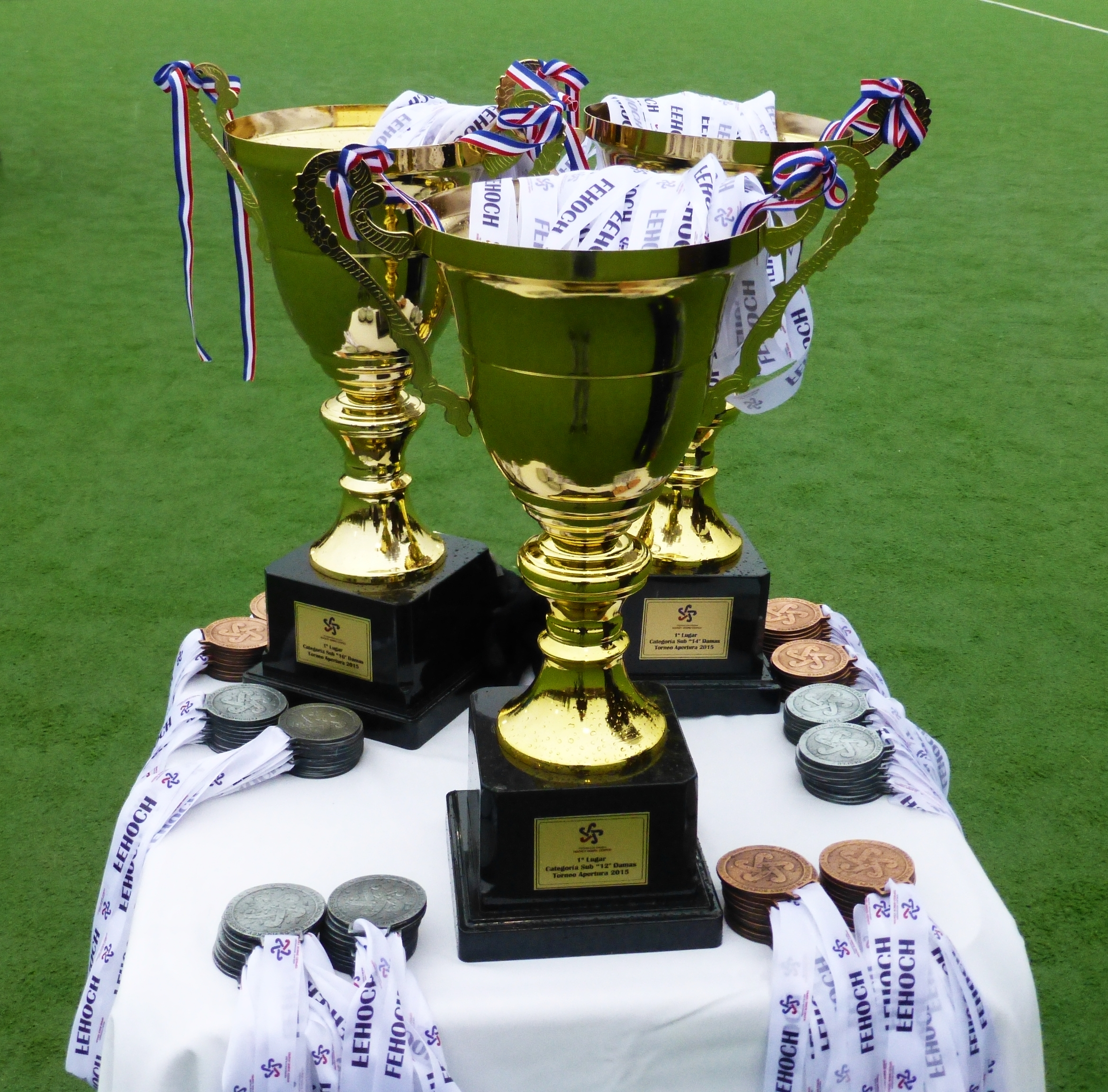 Trophies won by Club Deportivo Universidad Católica in the under-12, under-14 and under-16 official open tournament